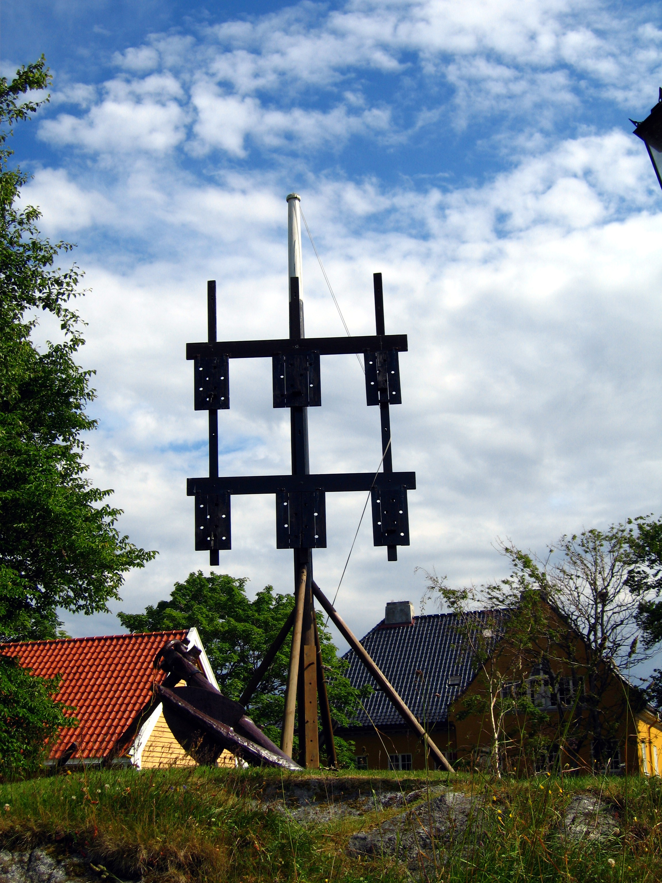 Optical telegraph, Ålesund Museum, Ålesund, Norway.